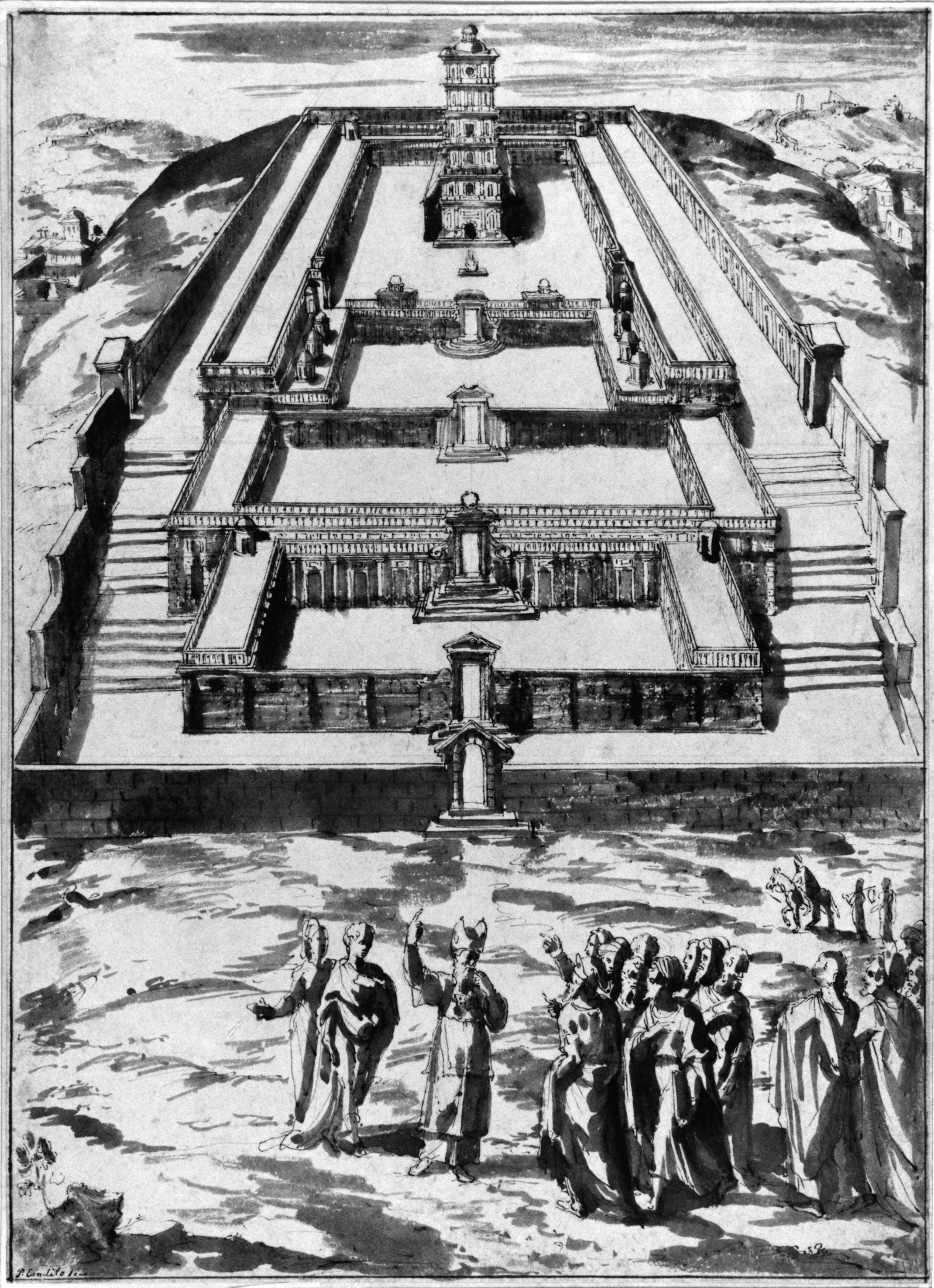 Pieter de Witte, "Temple of Solomon," undated. Pen and wash bistre or ink on paper, 321 x 234 mm. Weimar, Germany